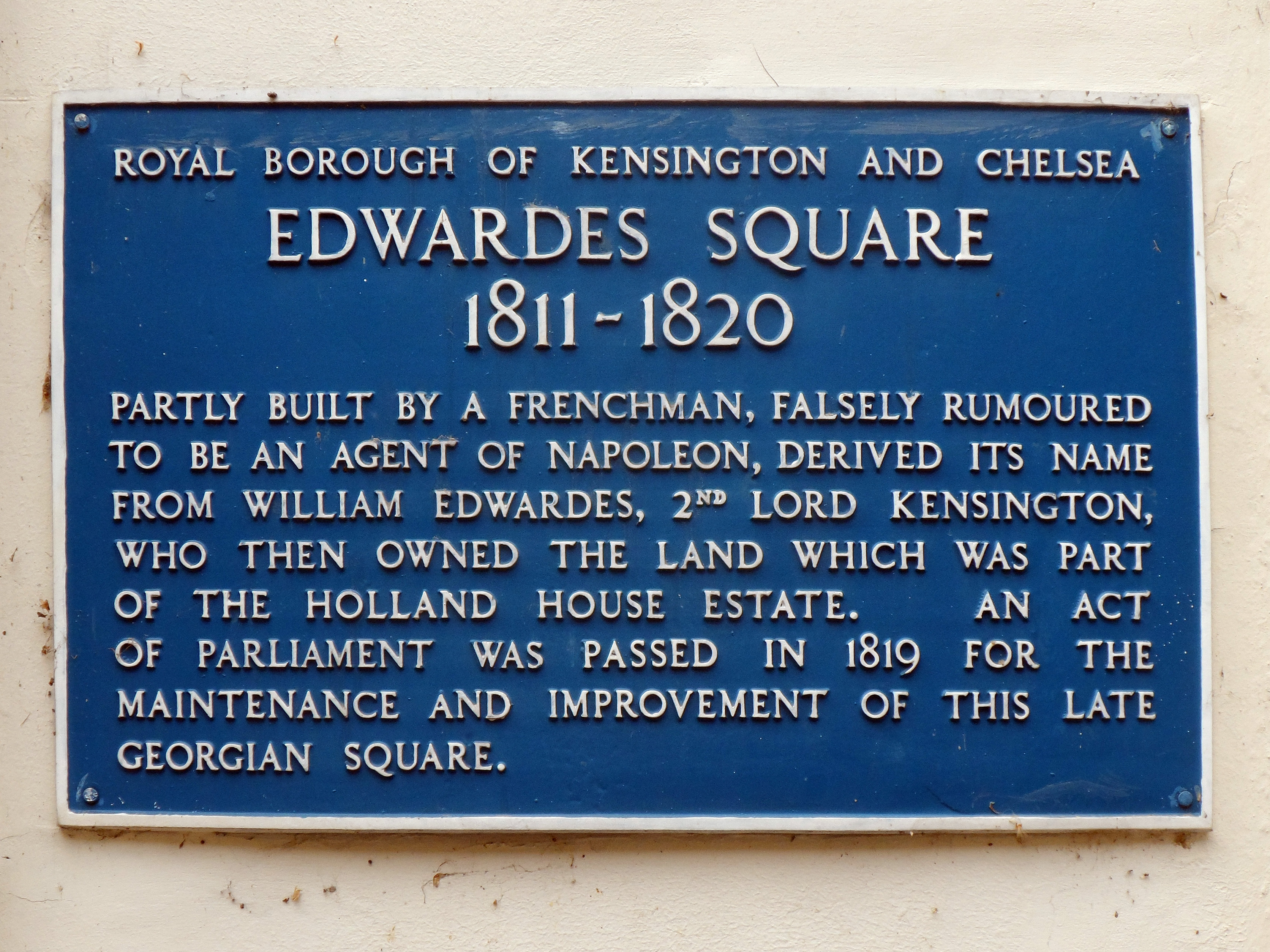 Blue plaque erected by Royal Borough of Kensington and Chelsea at The Temple, Edwardes Square, Kensington, London W8 6HL